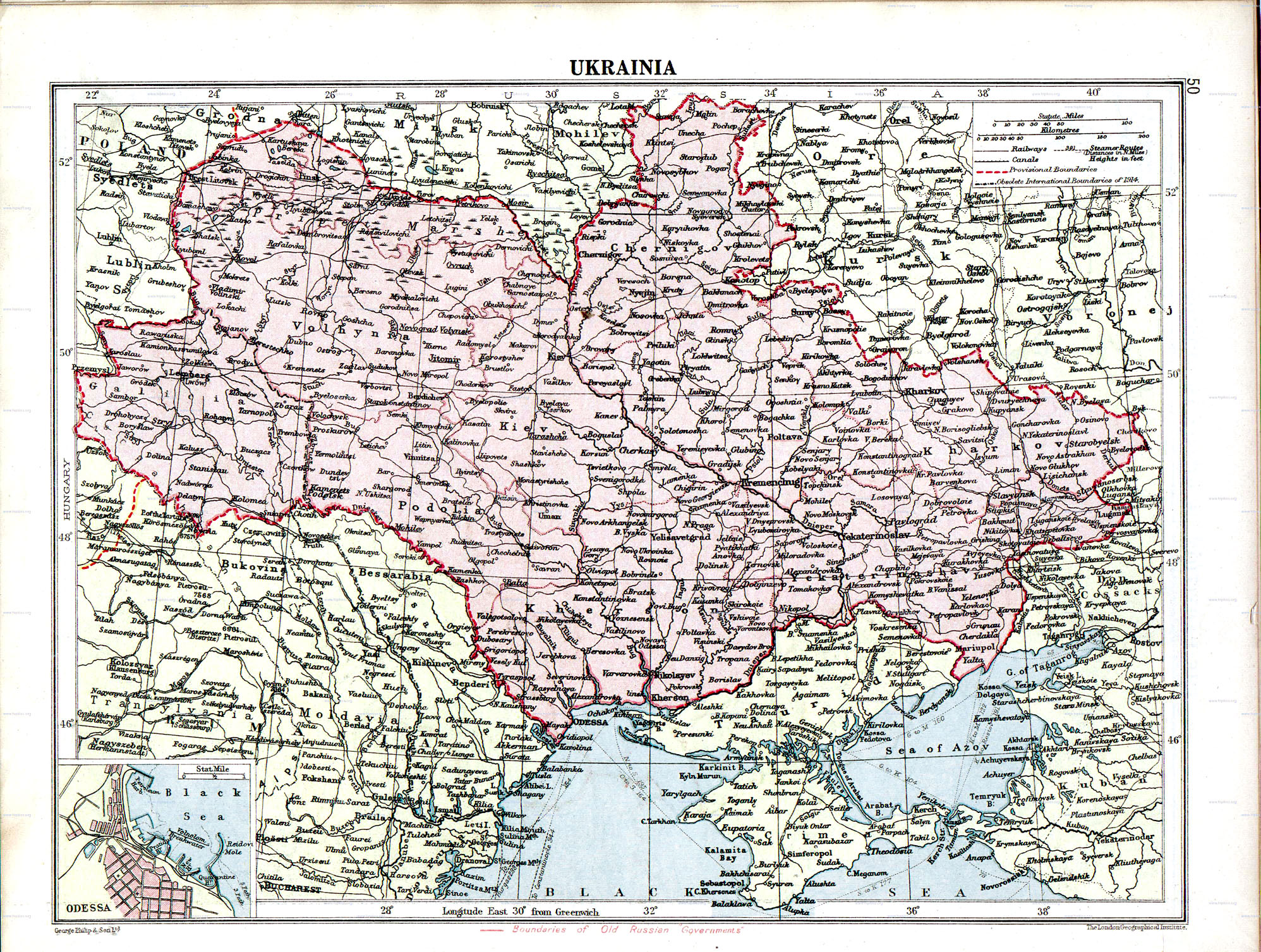 Map of 1919 Ukraine (after Russian Revolution and World War I, during Russian Civil War and before the Treaty of Riga and the creation of Soviet Union) published by London Geographical Institute. This uploaded map is a photoshopped version of the original image located at . According to the site, there are no copyrights to this map.